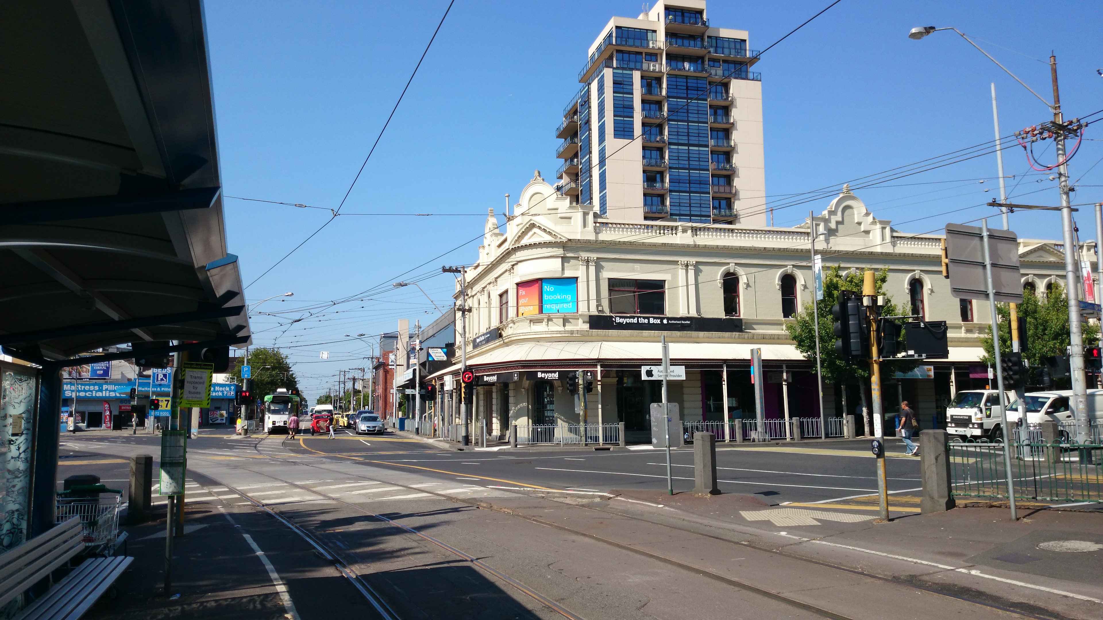 Ascot Vale and Mount Alexander Road at Moonee Ponds Junction.